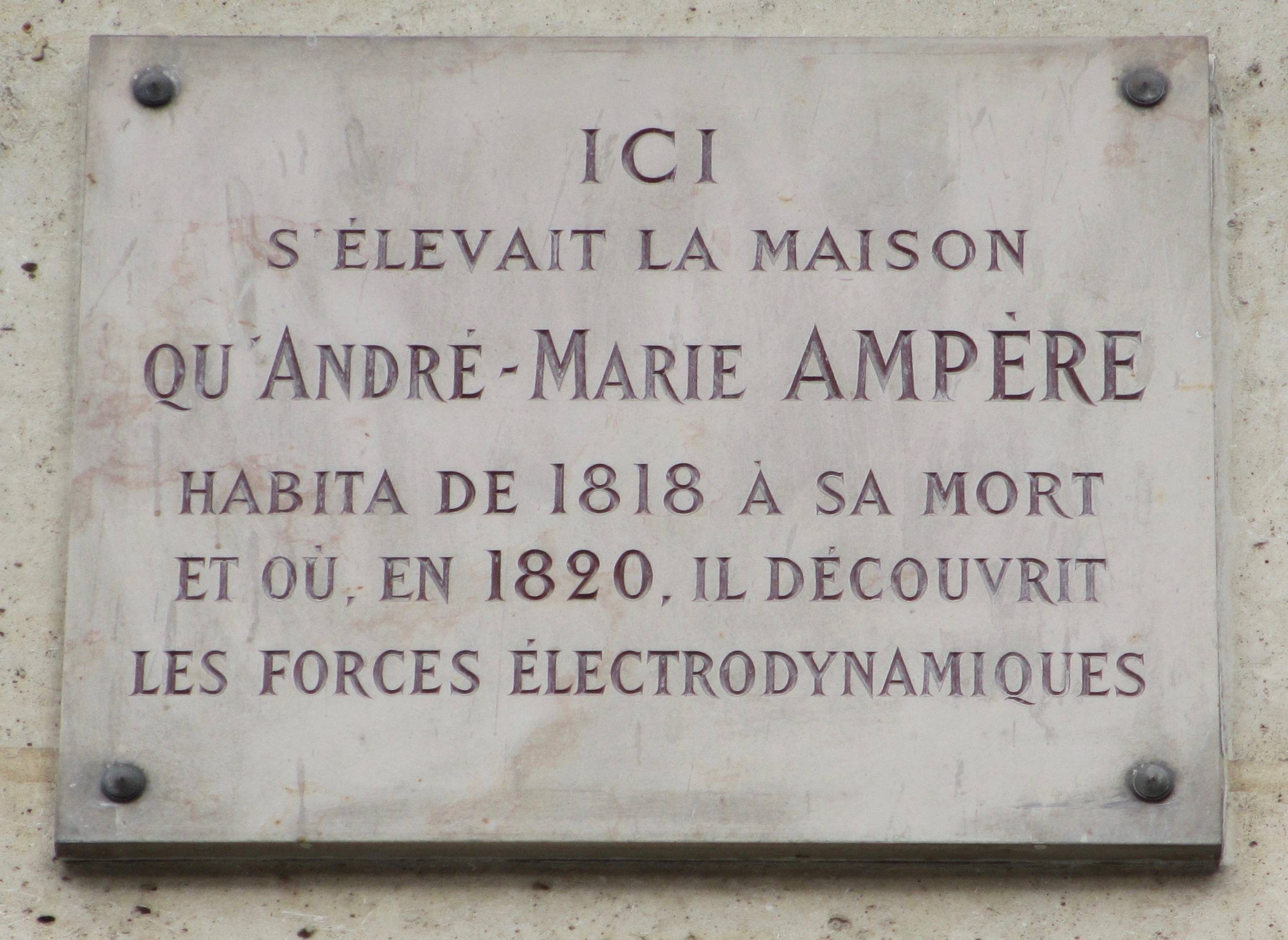 The plaque is located above a branch of HSBC bank at 29bis, rue Monge, Paris, 75005.